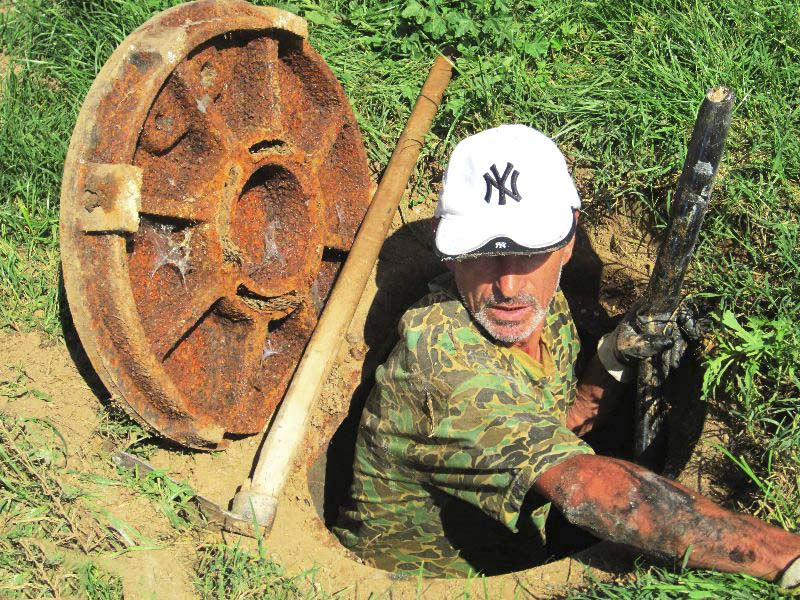 One of the more difficult work is cleaning the sewage